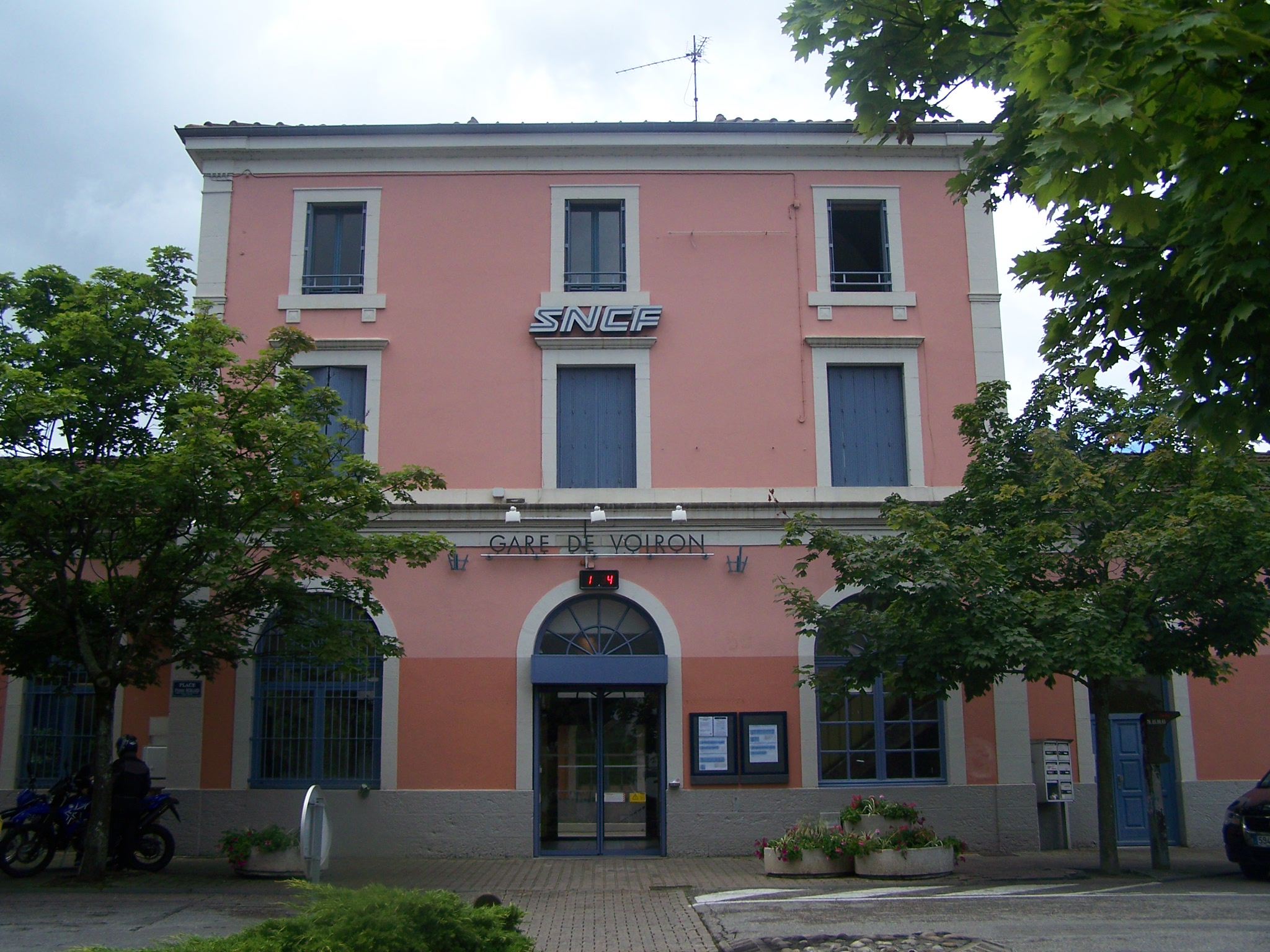 Front of the Voiron train station, in Isère, France.